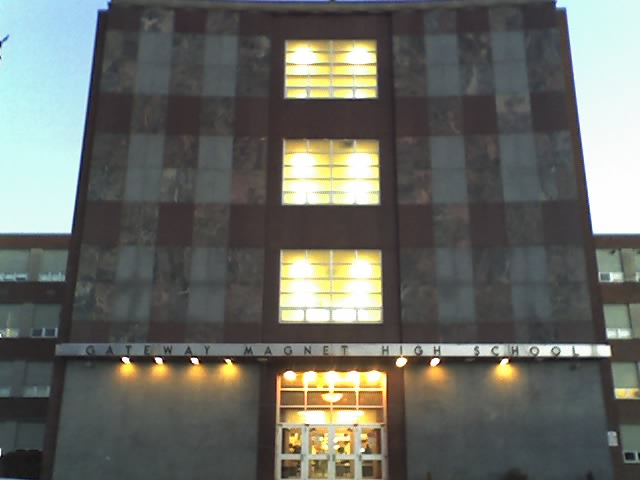 I'll try to get a better photo sometime in the future.